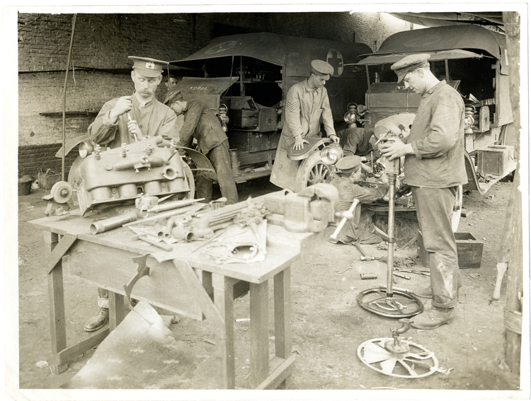 Repairing motors at the front [Merville, France].